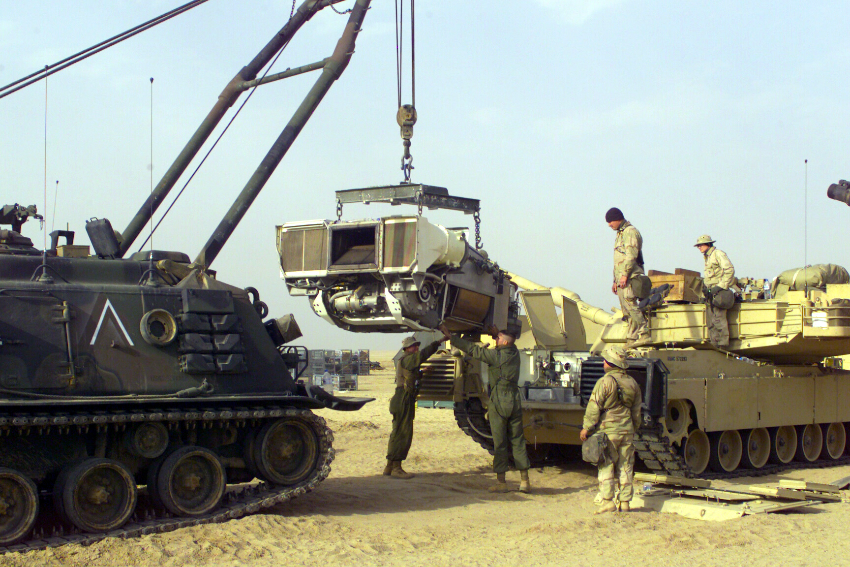 Using an M88 Recovery Vehicle, Marines from 1st Tank Battalion, Twentynine Palms, California, in the process of loading an AGT 1500 Gas Turbine Engine back into an M1A1 Abrams at Camp Coyote, Kuwait during Operation ENDURING FREEDOM. Location: TA COYOTE